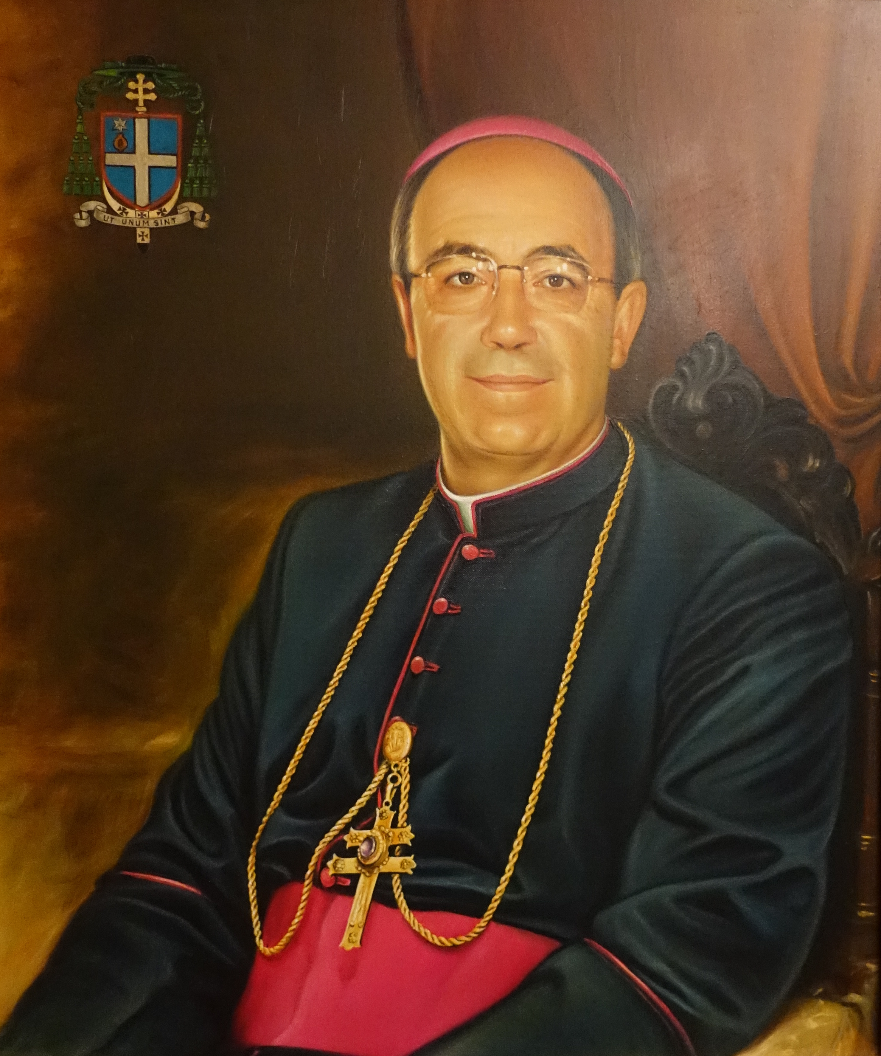 Archbishops Gallery in Braga, Portugal